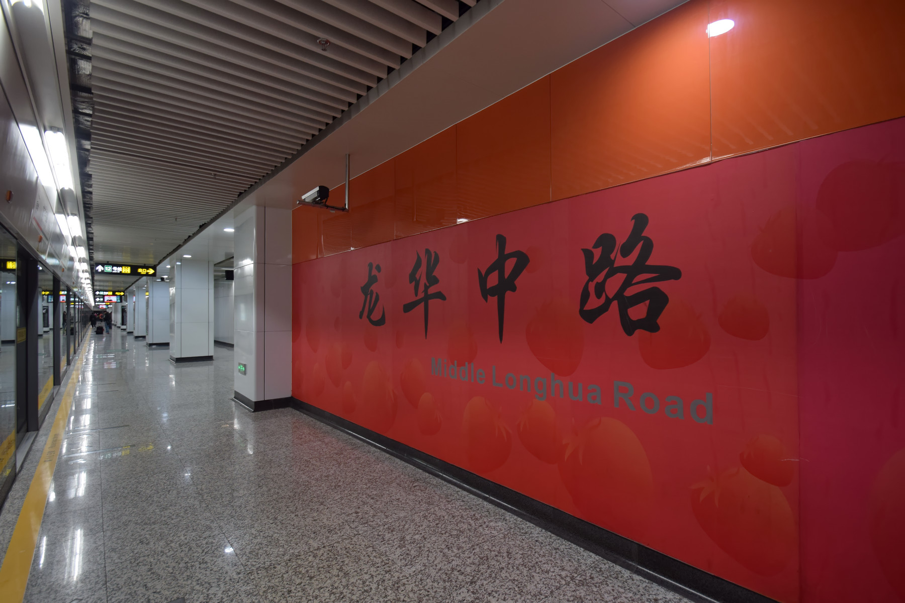 Line 7 Platform of Middle Longhua Road Station, Shanghai Metro